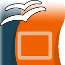 Logo: Impress